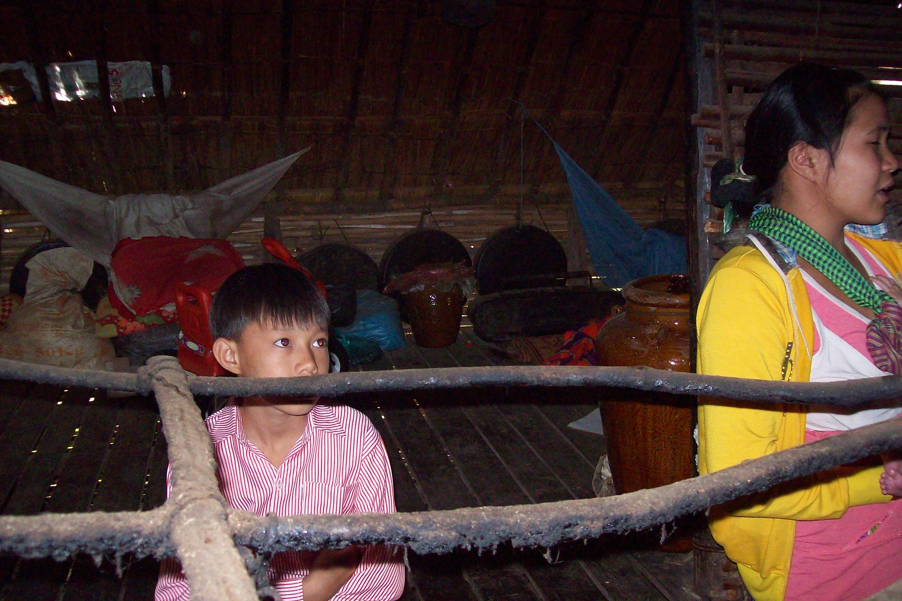 Interior of a Pnong dwelling